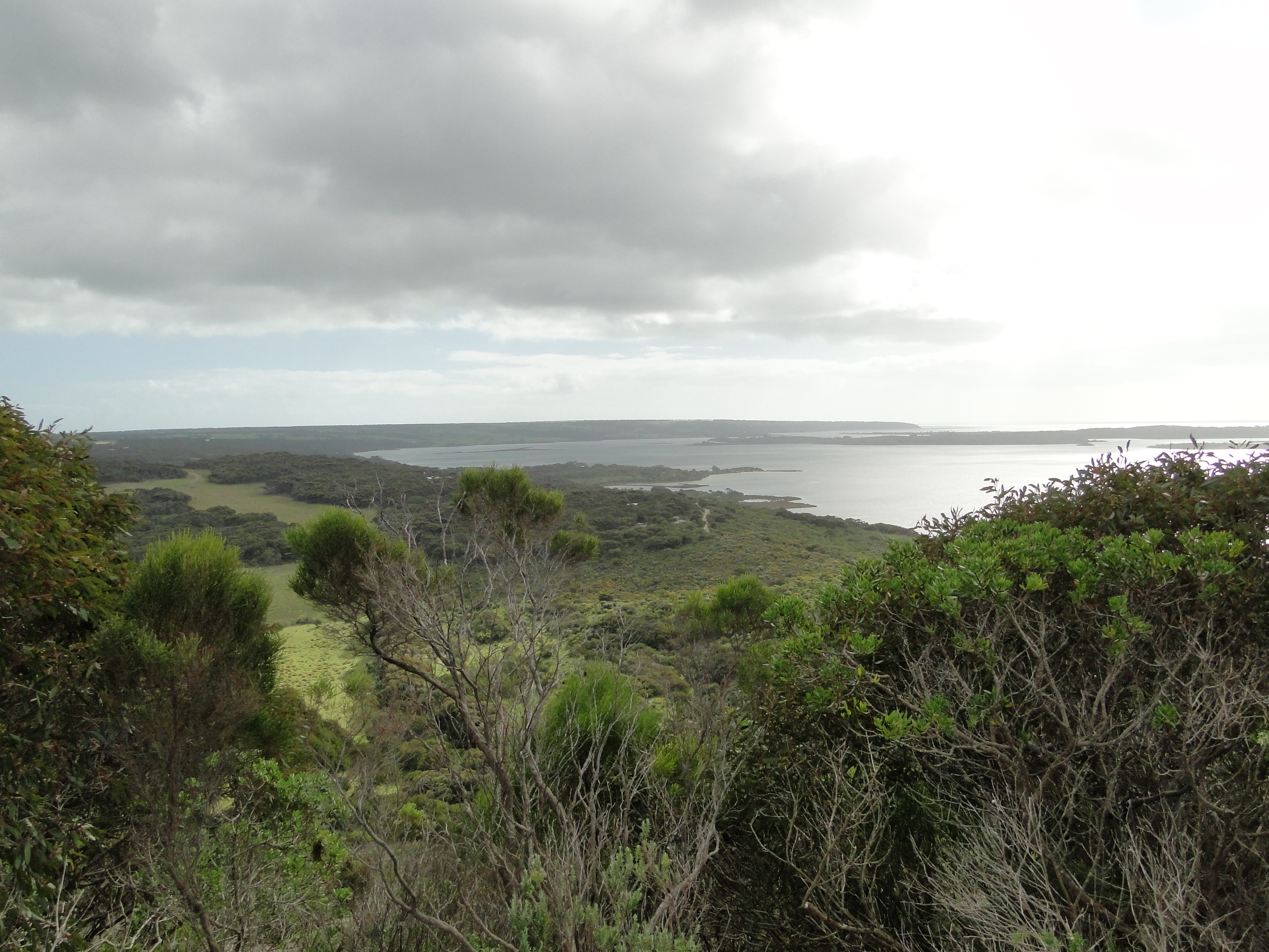 Pelican Lagoon Conservation Park and the American River, from Prospect Hill, Kangaroo Island, South Australia.